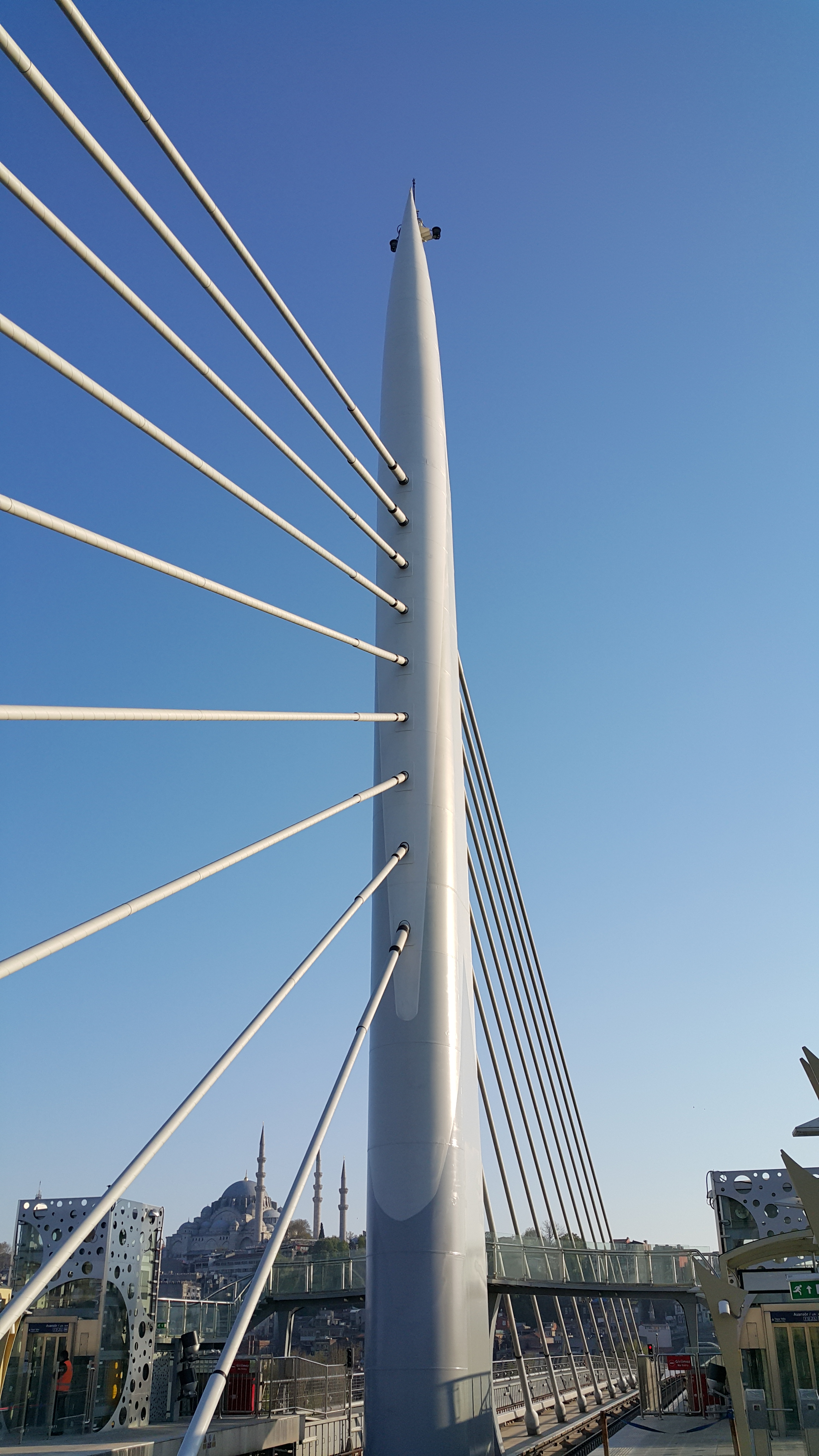 Golden Horn Metro Bridge in Istanbul, Turkey.